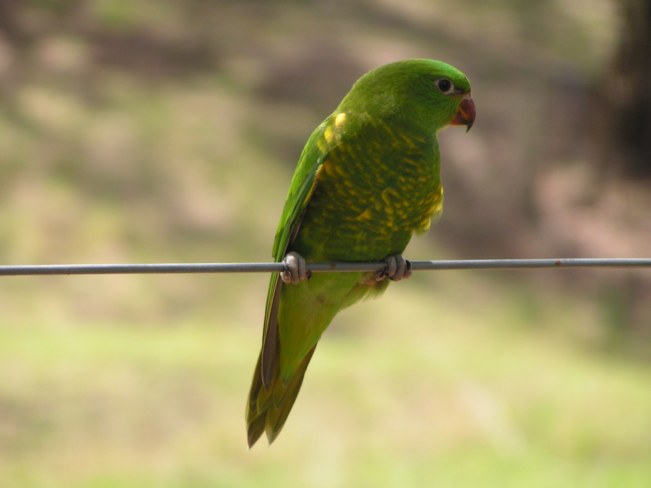 Scaly-breasted Lorikeet (Trichoglossus chlorolepidotus). A juvenile near Toowoomba, Queensland, Australia taken in November 2006.